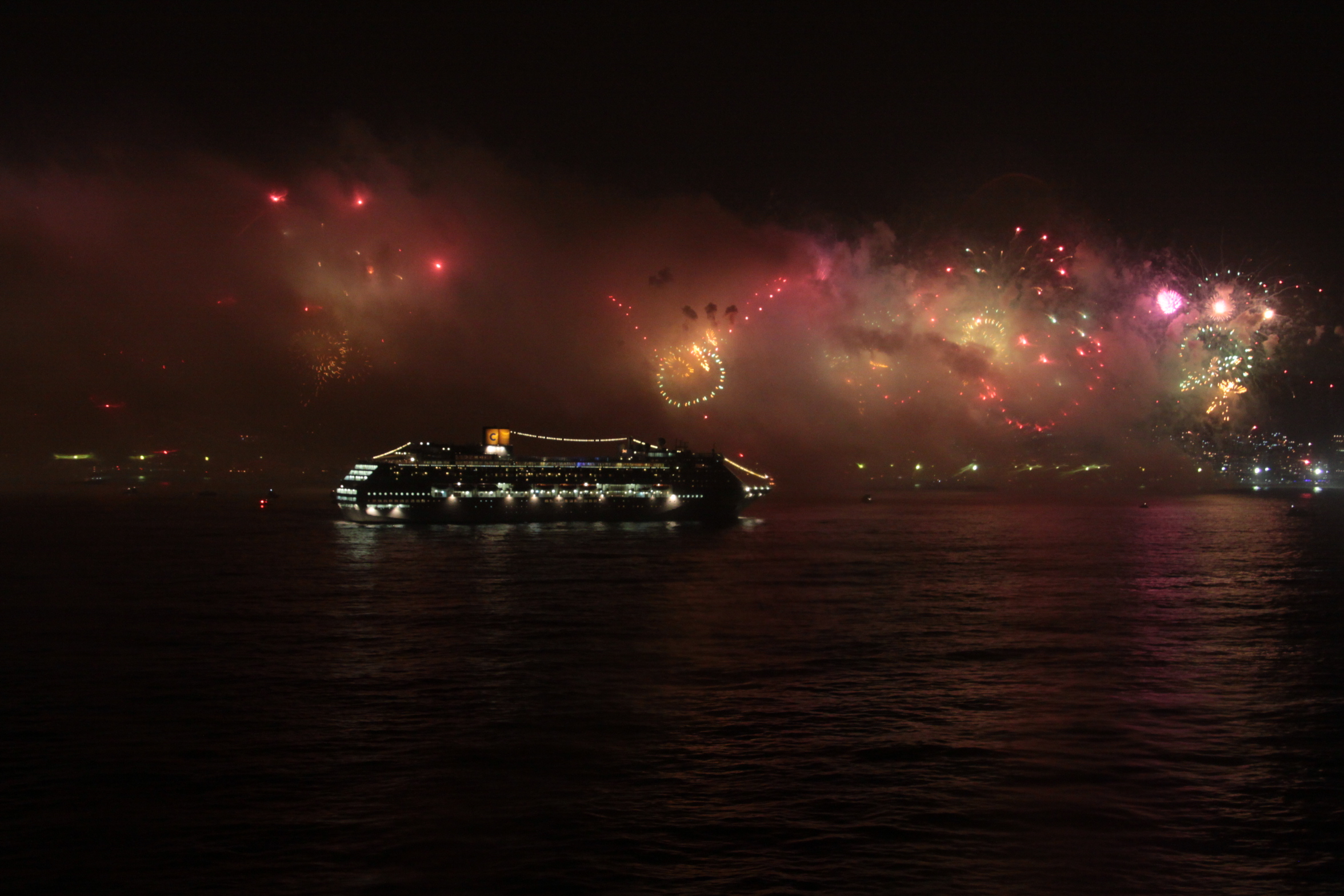 Fireworks seen in Rio de Janeiro from MSC Musica cruise ship - Copacabana - 2012